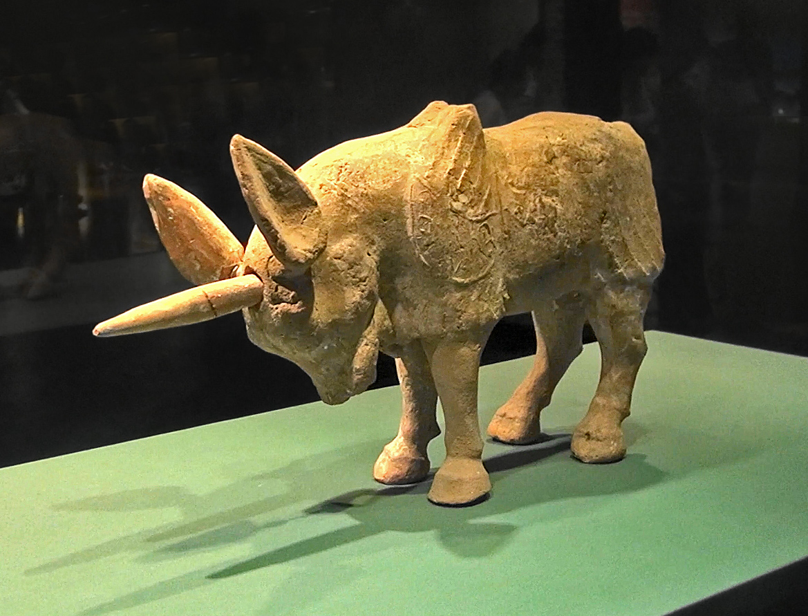 Pottery Unicorn – Northern Wie Period (386-534 A.D.)